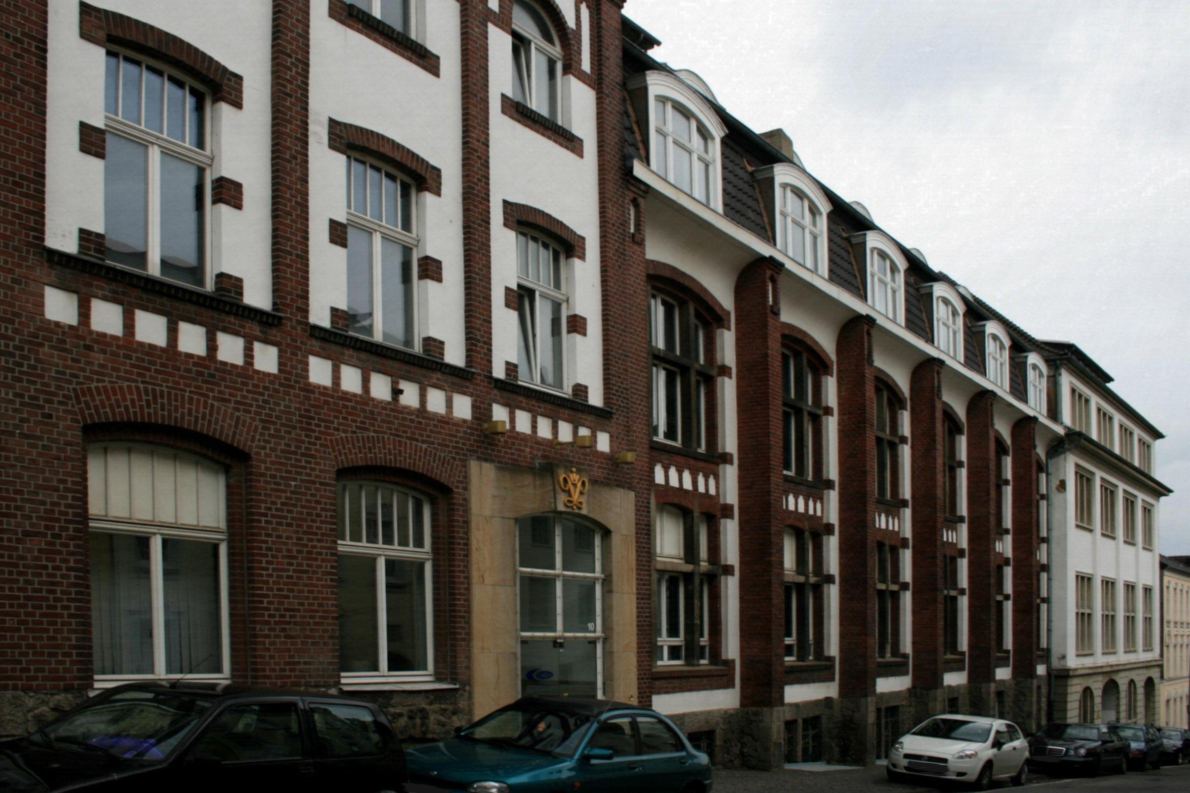 Cultural heritage monument No. A 045 in Mönchengladbach